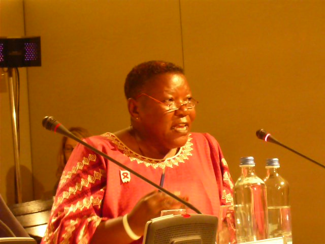 Noerine Kaleeba, President ActionAid International